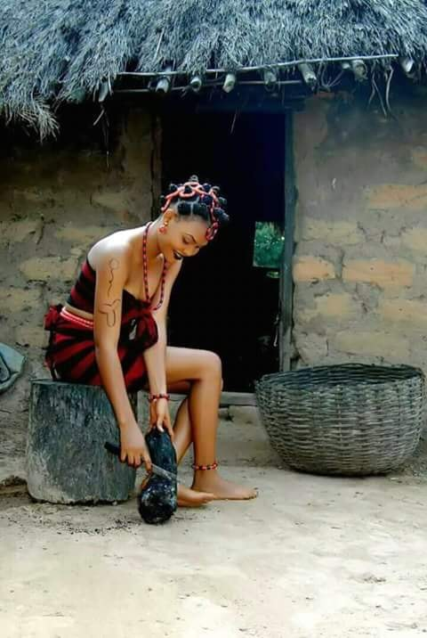 Young Idoma woman dressed with the Idoma colours preparing roasted yam.